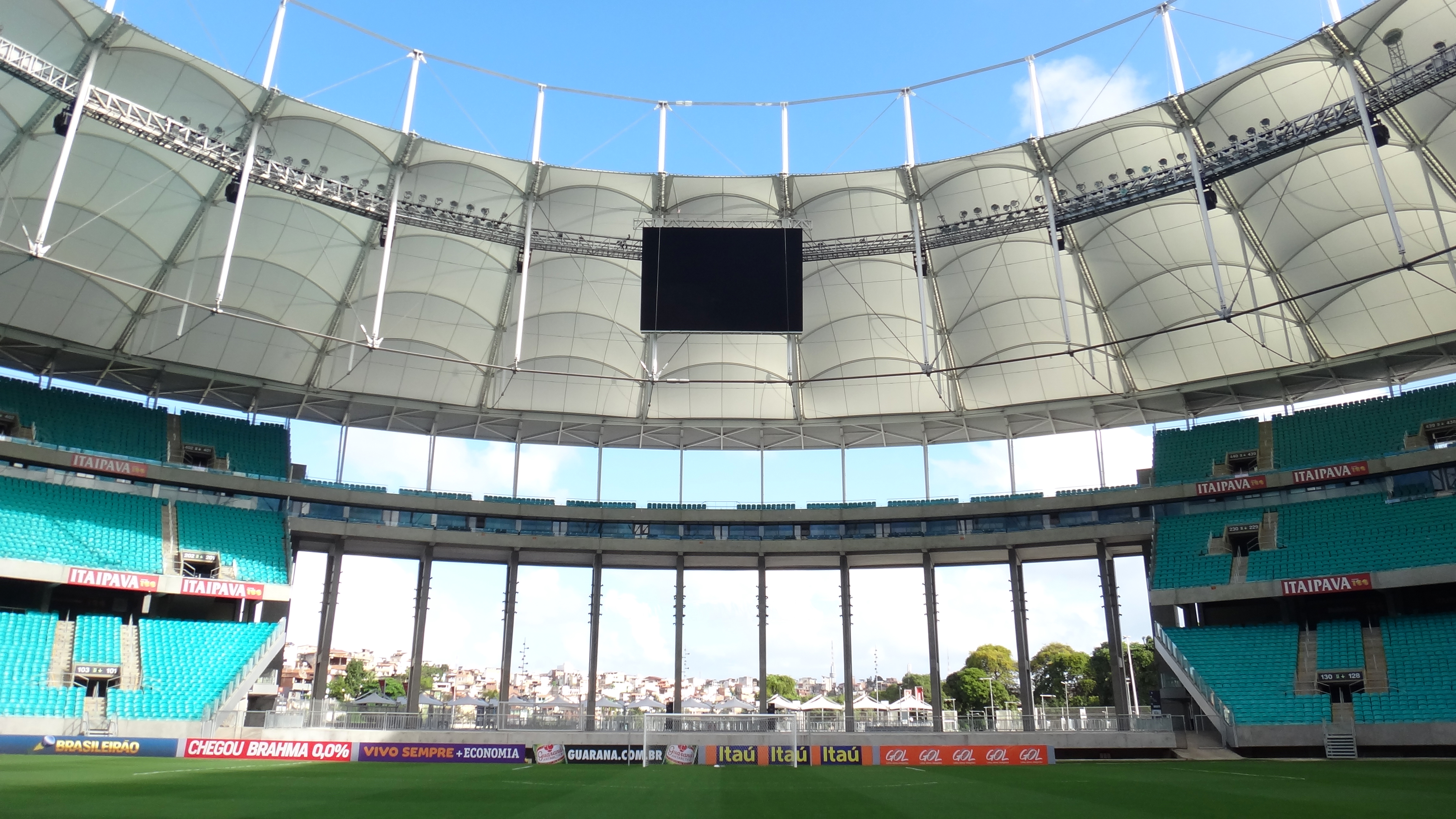 Southern opening in the Arena Fonte Nova